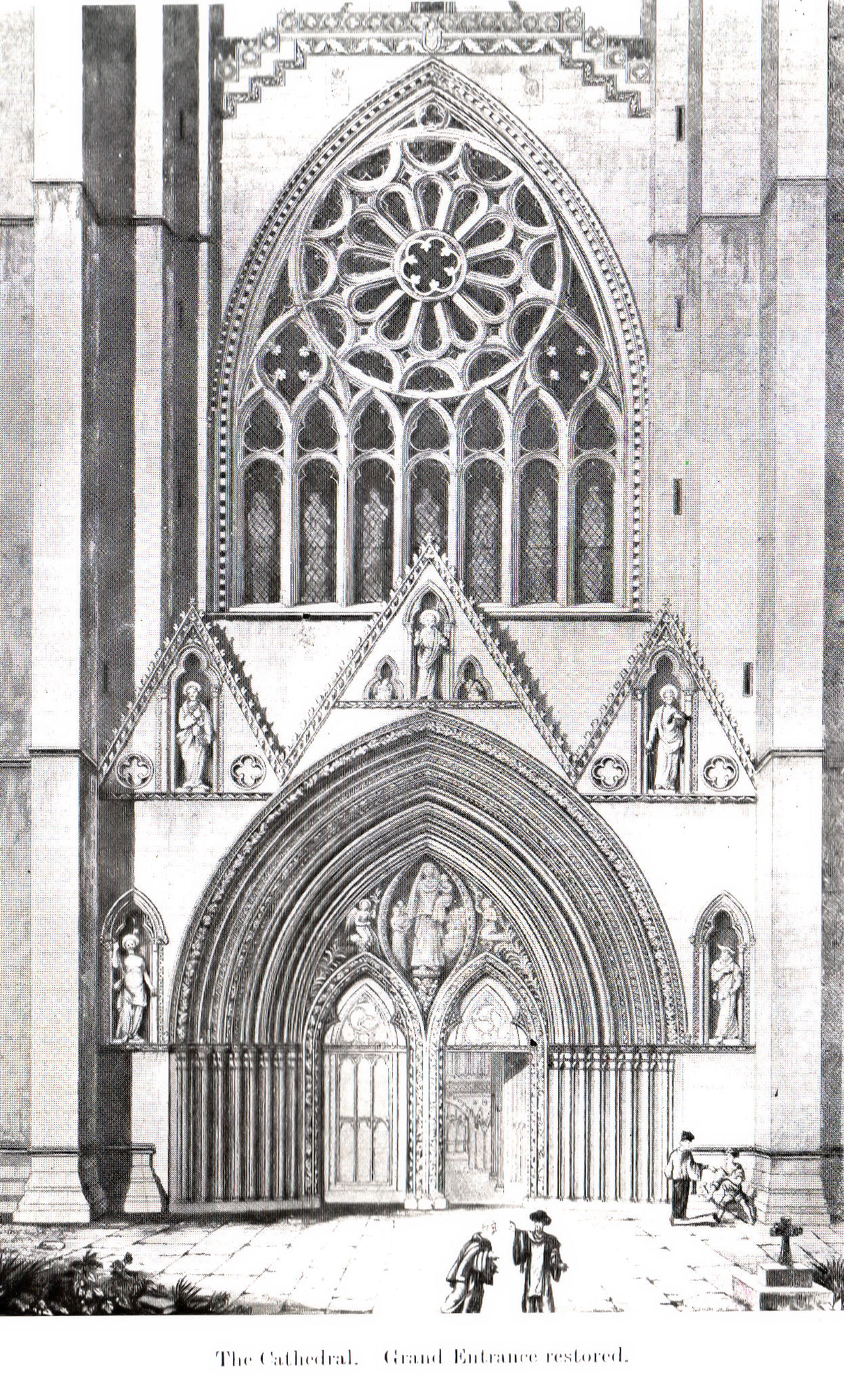 Copyright expired. Taken from book: Elgin Past and Present by Herbert B. Mackintosh, 1915